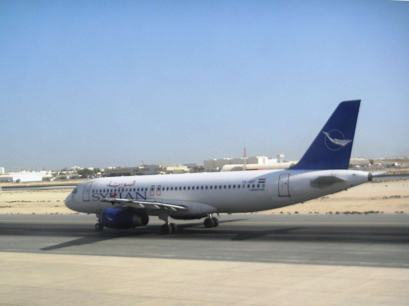 Syrian Arab Airlines, seen at Doha International Airport